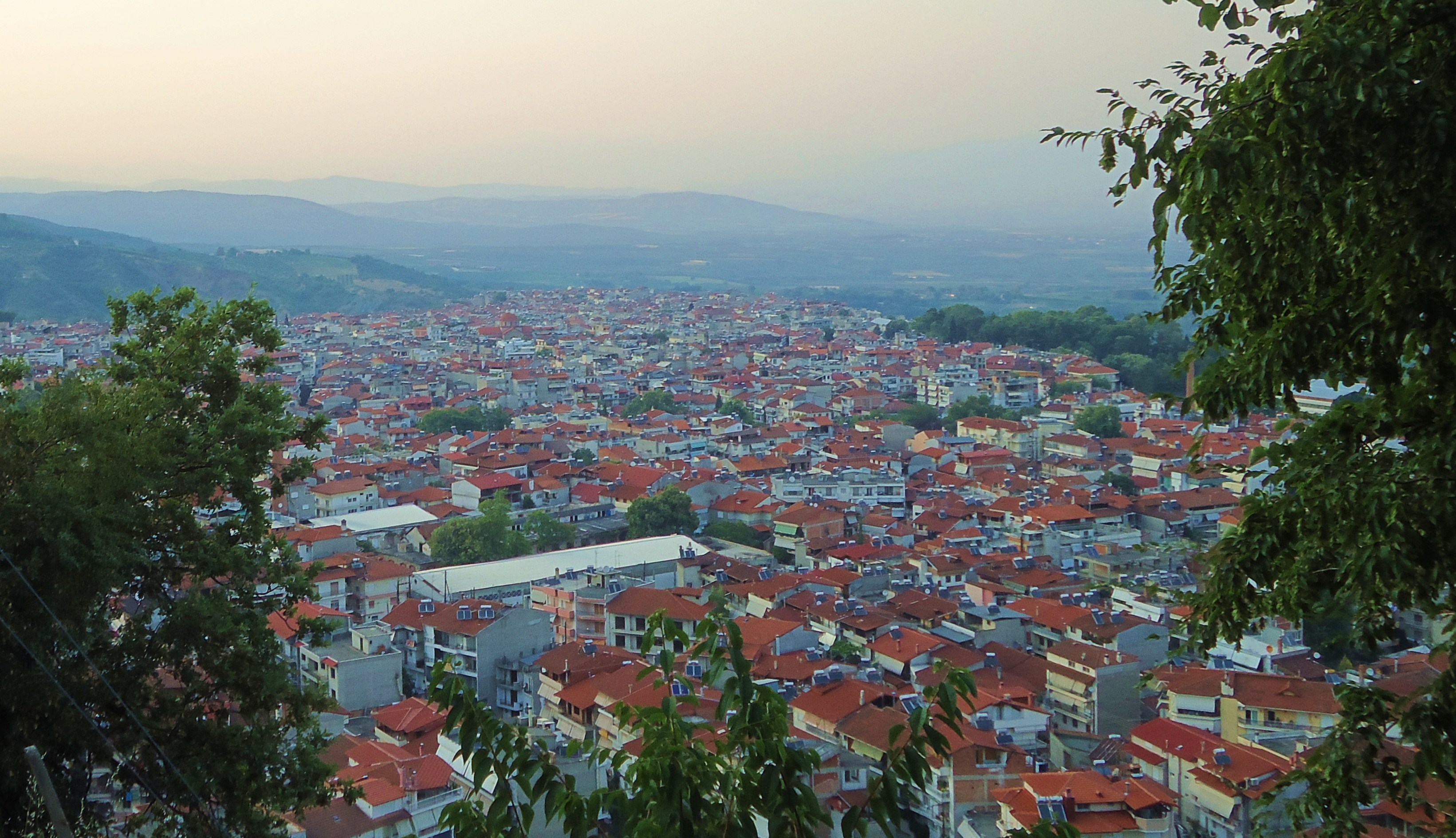 from the road to Saint Theologos and Seli